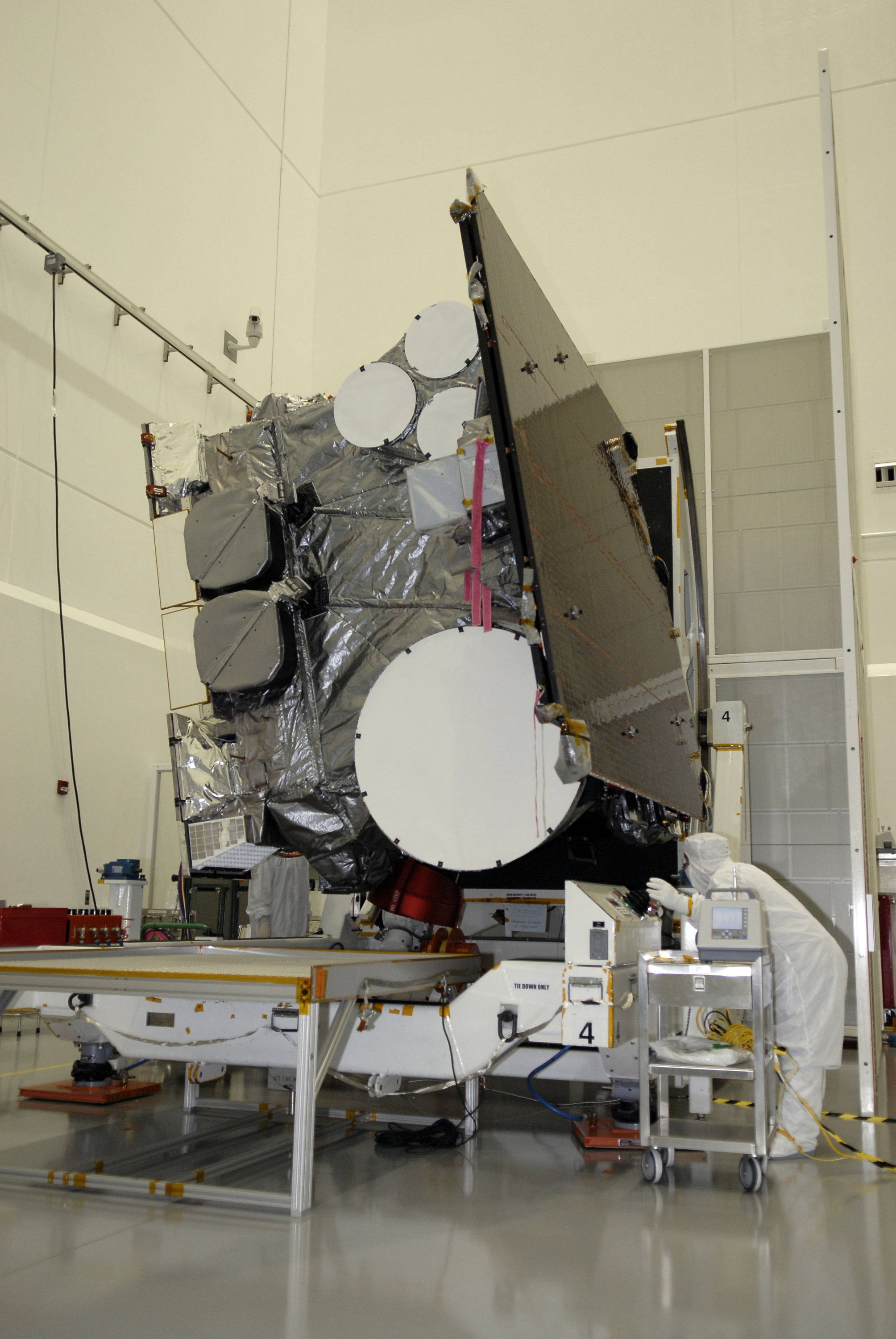 GOES O after its arrival in the Astrotech payload processing seen from above.